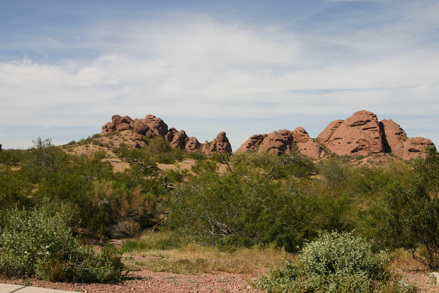 The Papago Buttes in Phoenix, Arizona, USAPapago Buttes